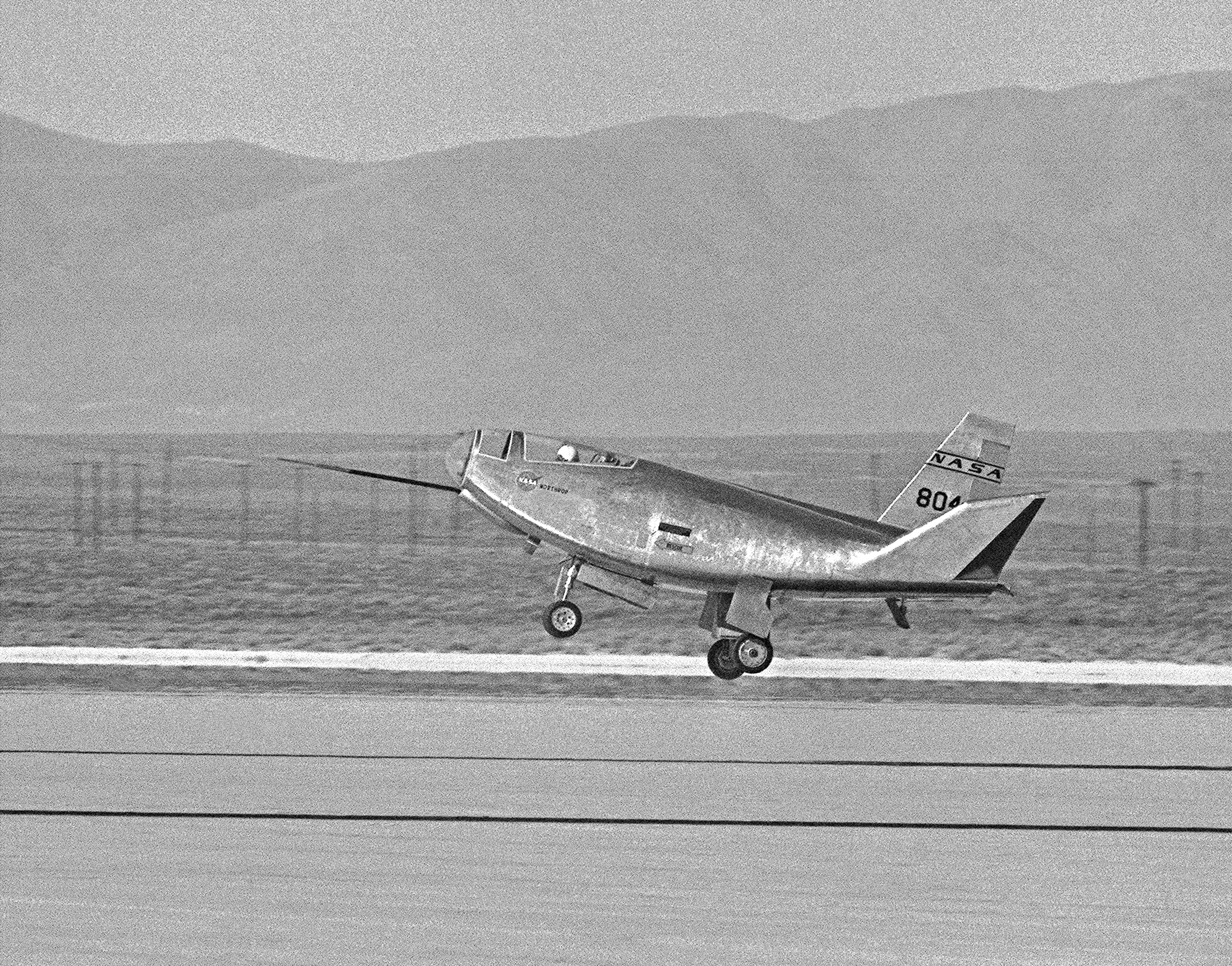 With pilot Bruce Peterson at the controls, the HL-10 lifting body aircraft makes a successful landing on Rogers Dry Lake at the Dryden Flight Research Center at Edwards, California.